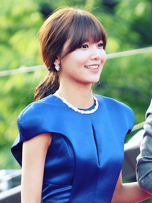 Sooyoung at red carpet Bucheon International Fantastic Film Festival on July 18, 2013.